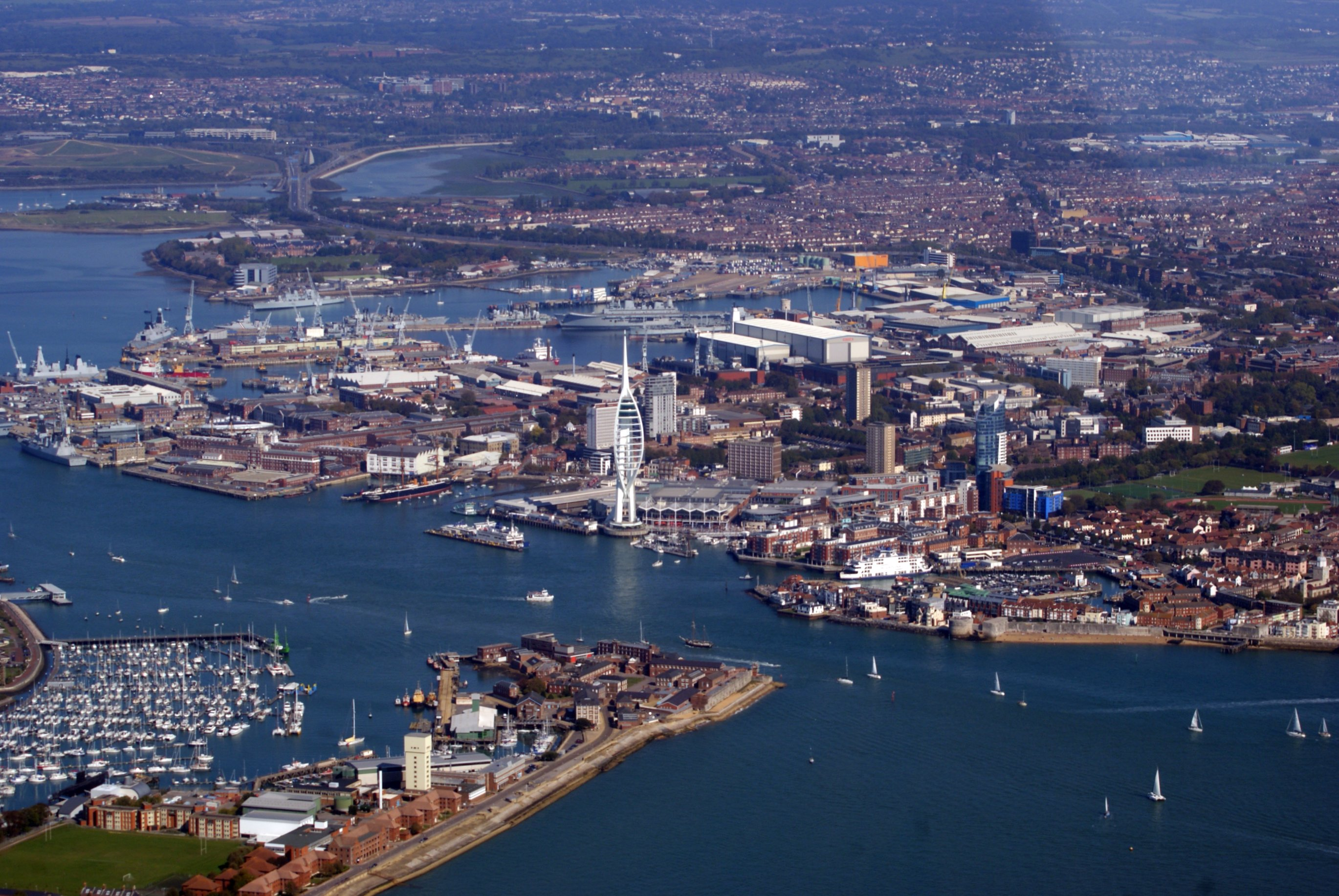 Portsmouth Harbour